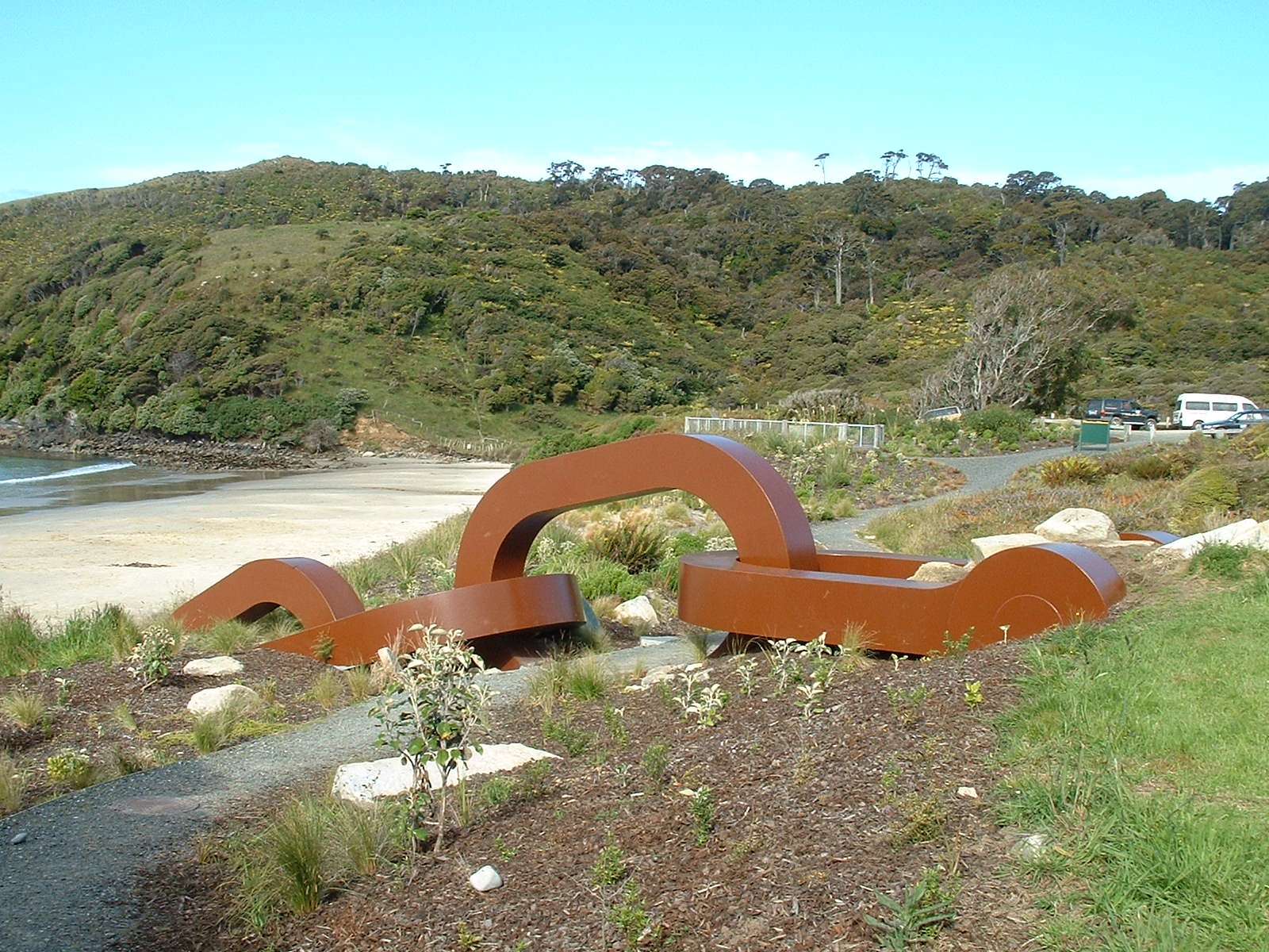 Lee Bay and the chain link sculpture near the start (or end) of the Rakiura Track on Stewart Island.